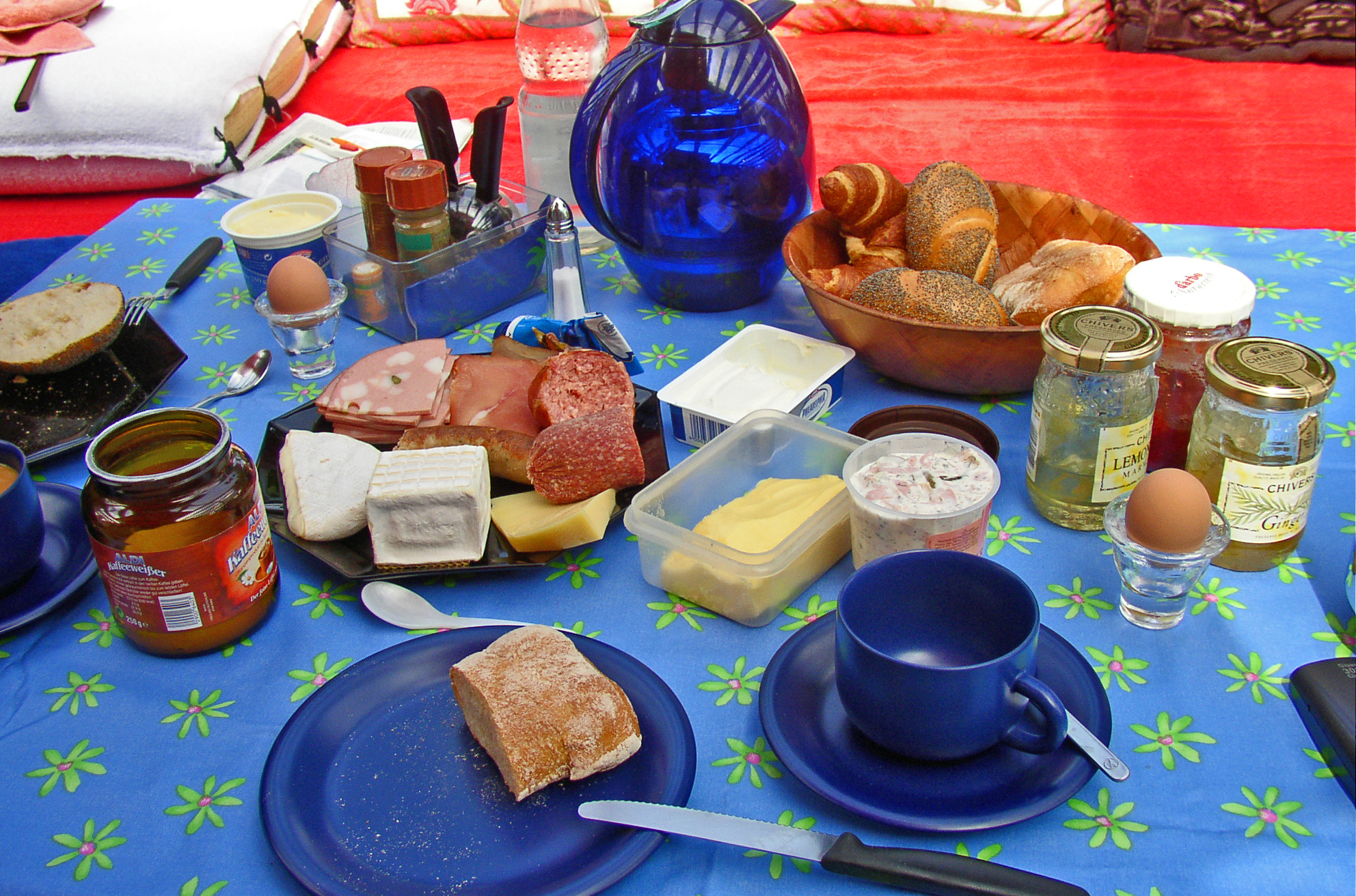 Breakfast on our terrace. - You may also want to have a look at our website (in German) to see more of our terrace